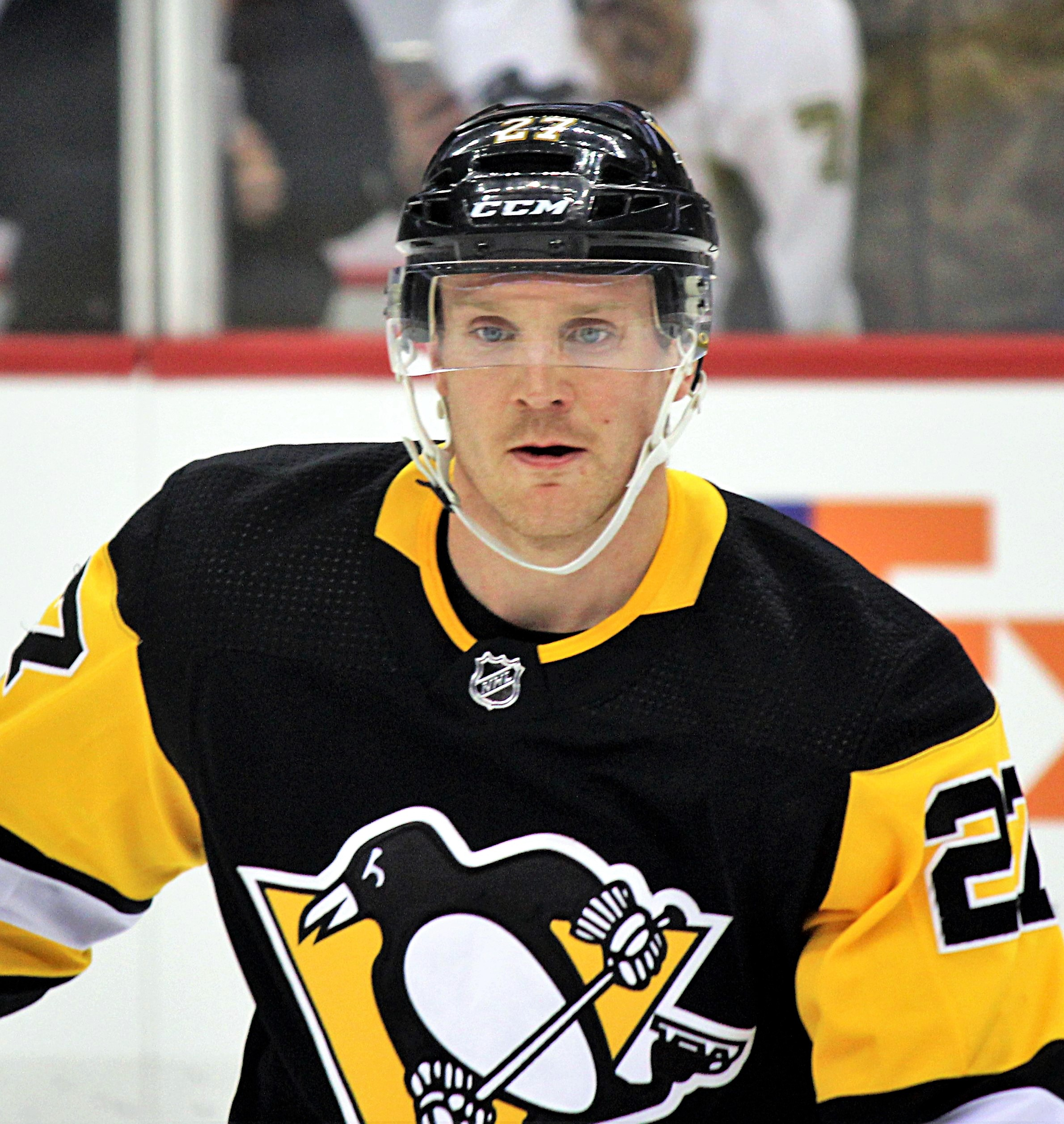 Pittsburgh Penguins defenseman Kevin Czuczman during a game against the Toronto Maple Leafs, December 9, 2017, at PPG Paints Arena in Pittsburgh, PA.